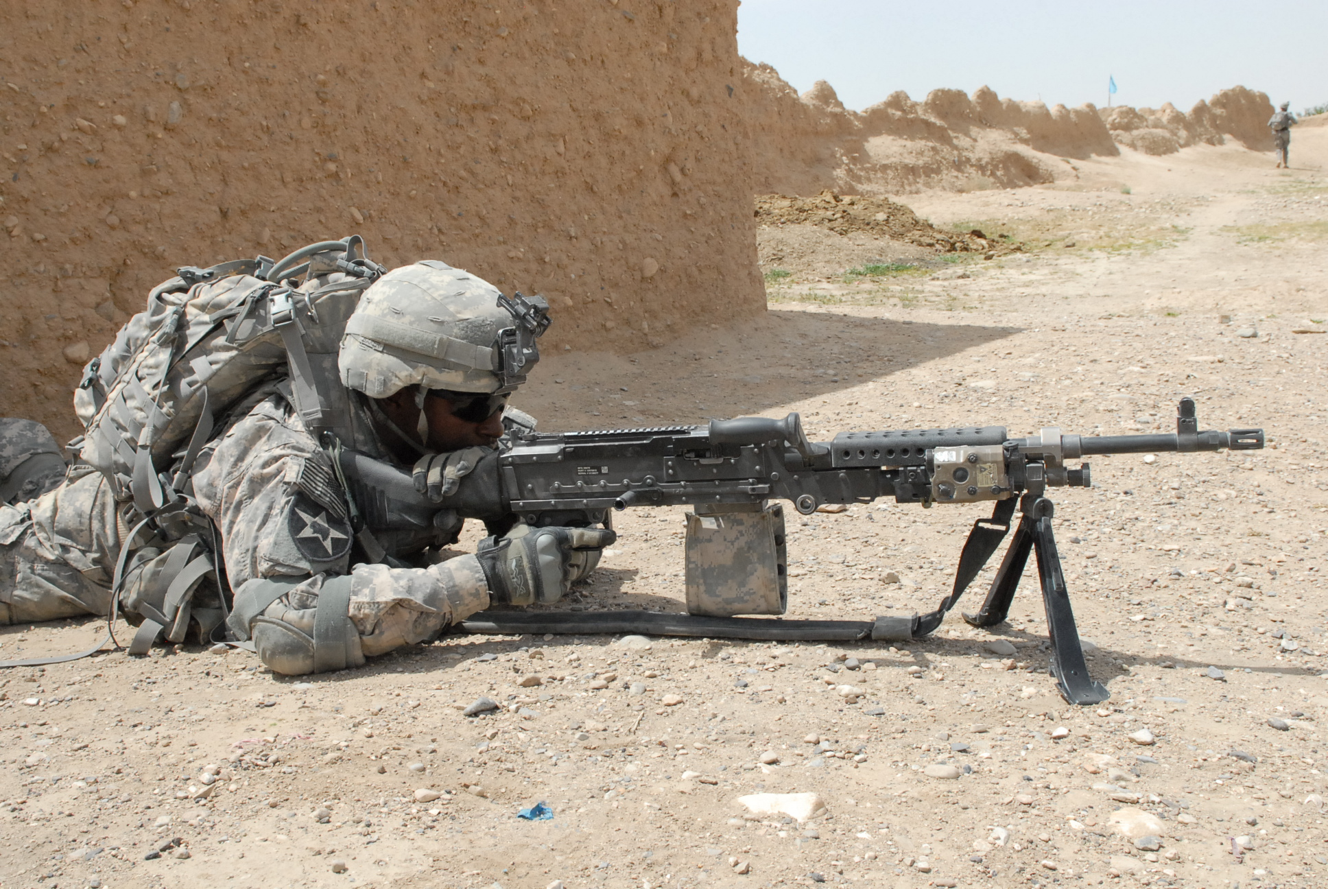 A Soldier assigned to A company, 52nd Infantry Regiment, 5th Stryker Brigade Combat Team provides over watch on a large field in Maiwand, Afghanistan Apr. 7. (U.S. Army Photo by Spc. Nathan Booth)